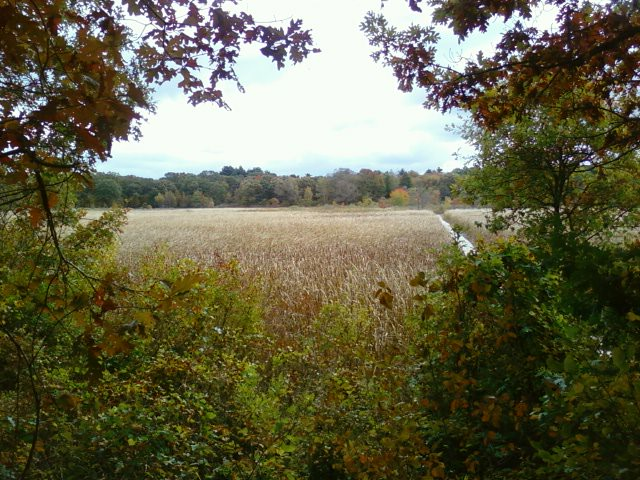 Picture of Cutler Park taken from this spot (that is, 42.274197 N, 71.196519 W), facing south-southeast.